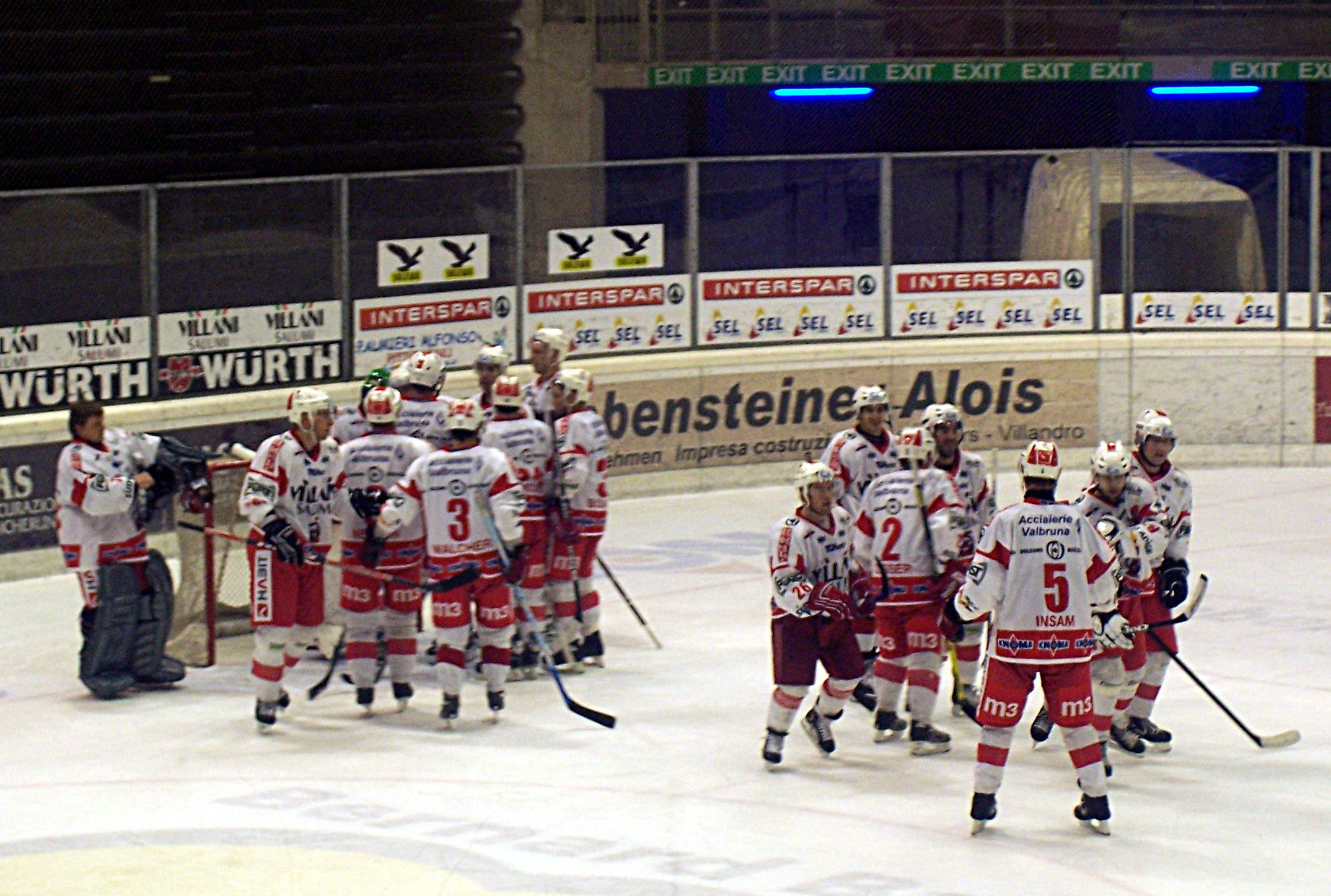 HC Bolzano 2006-07; photo taken at the end of the game against SV Renon played in Bolzano, 30 dec 2006